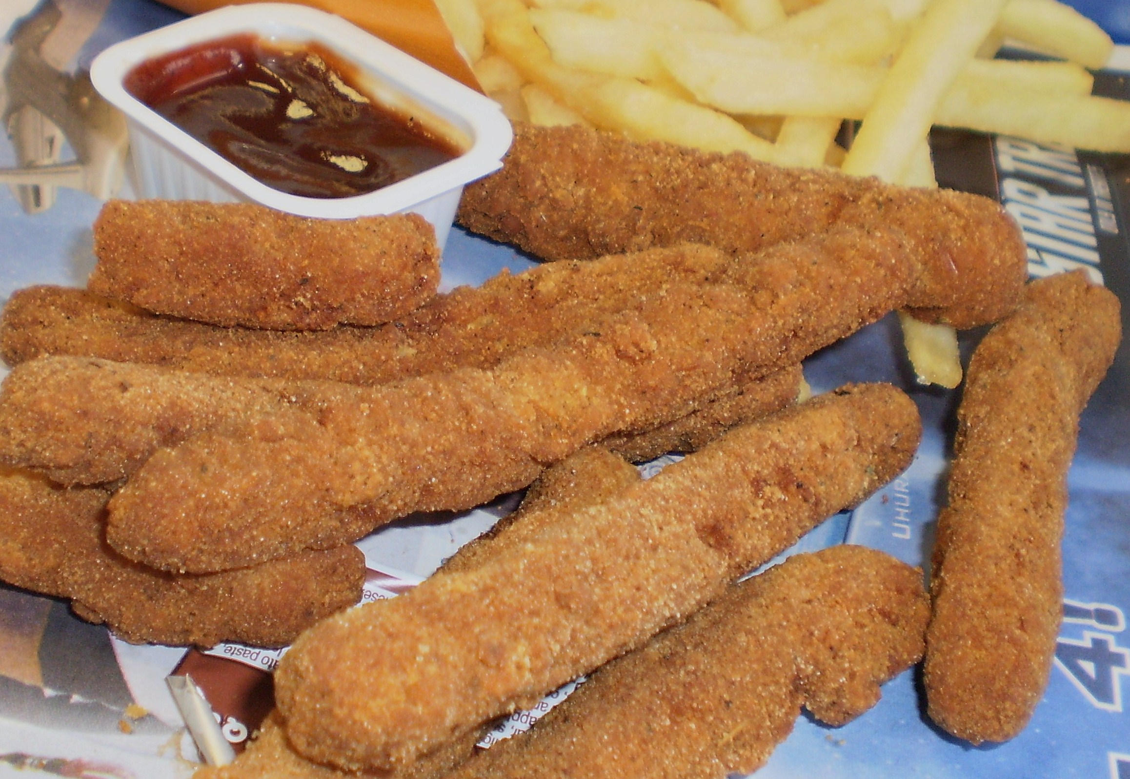 Burger King Chicken Fries with a plastic barbeque sauce container, and some actual (potato) fries overexposed in the background